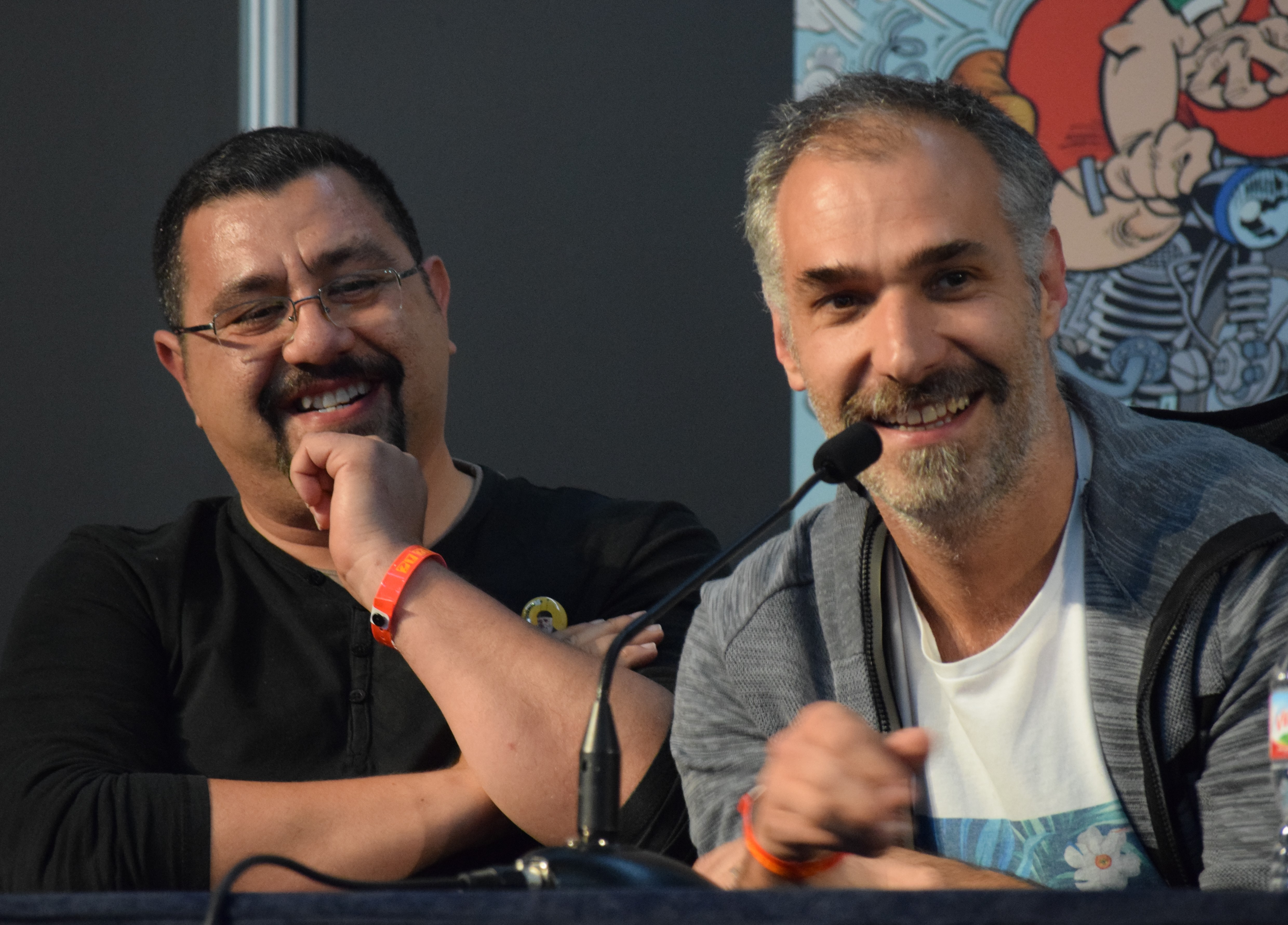 The scriptwriter El Torres and the cartoonist Jesús Alonso Iglesias, authors of the comic El fantasma de Gaudí during the Barcelona International Comic Convention of 2016.